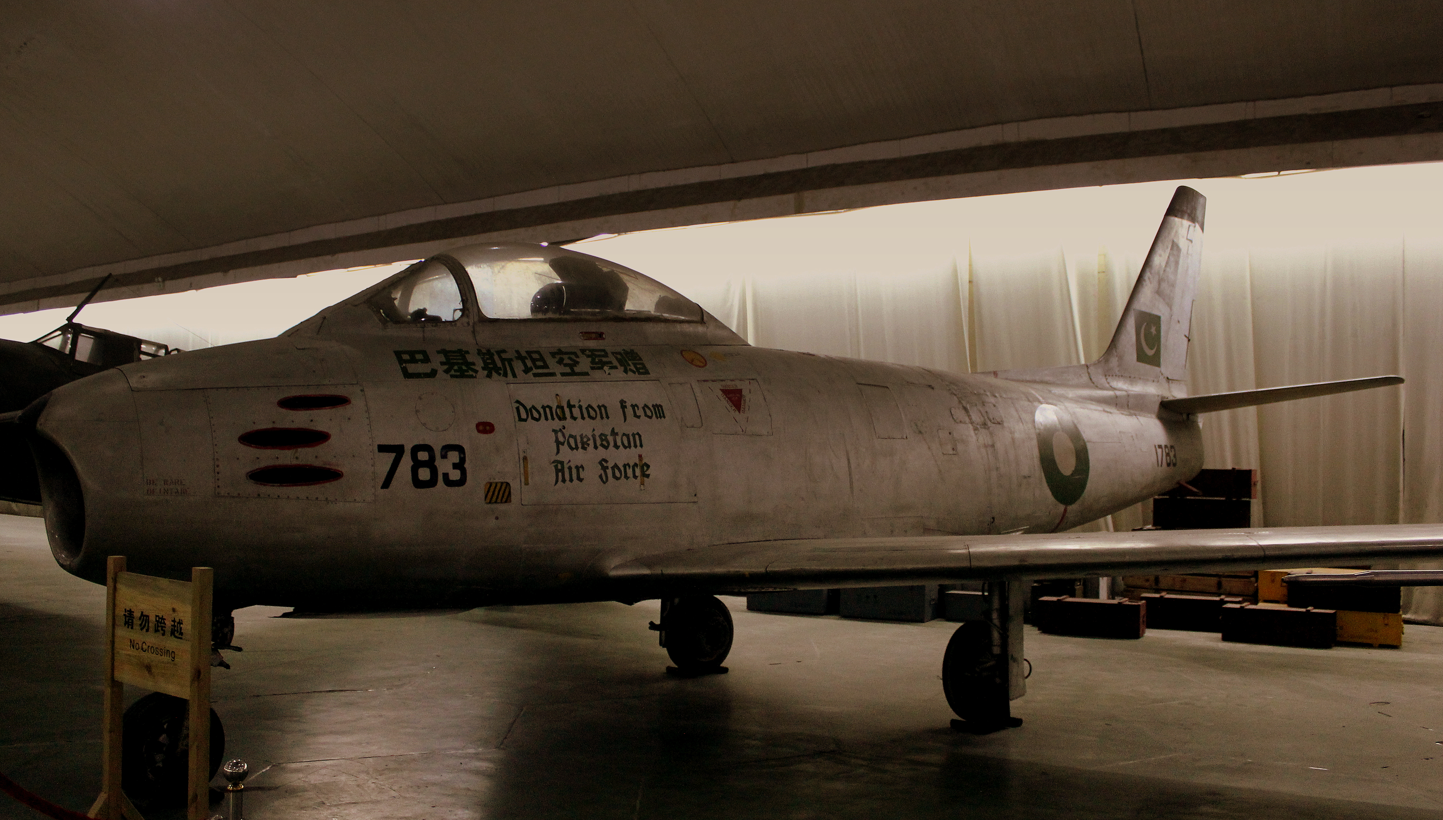 CHINA AVIATION MUSEUM AT DATANSHAN CHINA OCT 2012